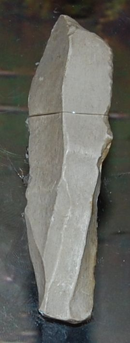 Cast of a Cresswell point, from Cresswell Crags, Derbyshire, England, photopgraphed at Derby Museum and Art Gallery. The museums exhibit label says "Cresswell points were probably hafted knife blades". Taken during GLAMDerby Backstage Pass.